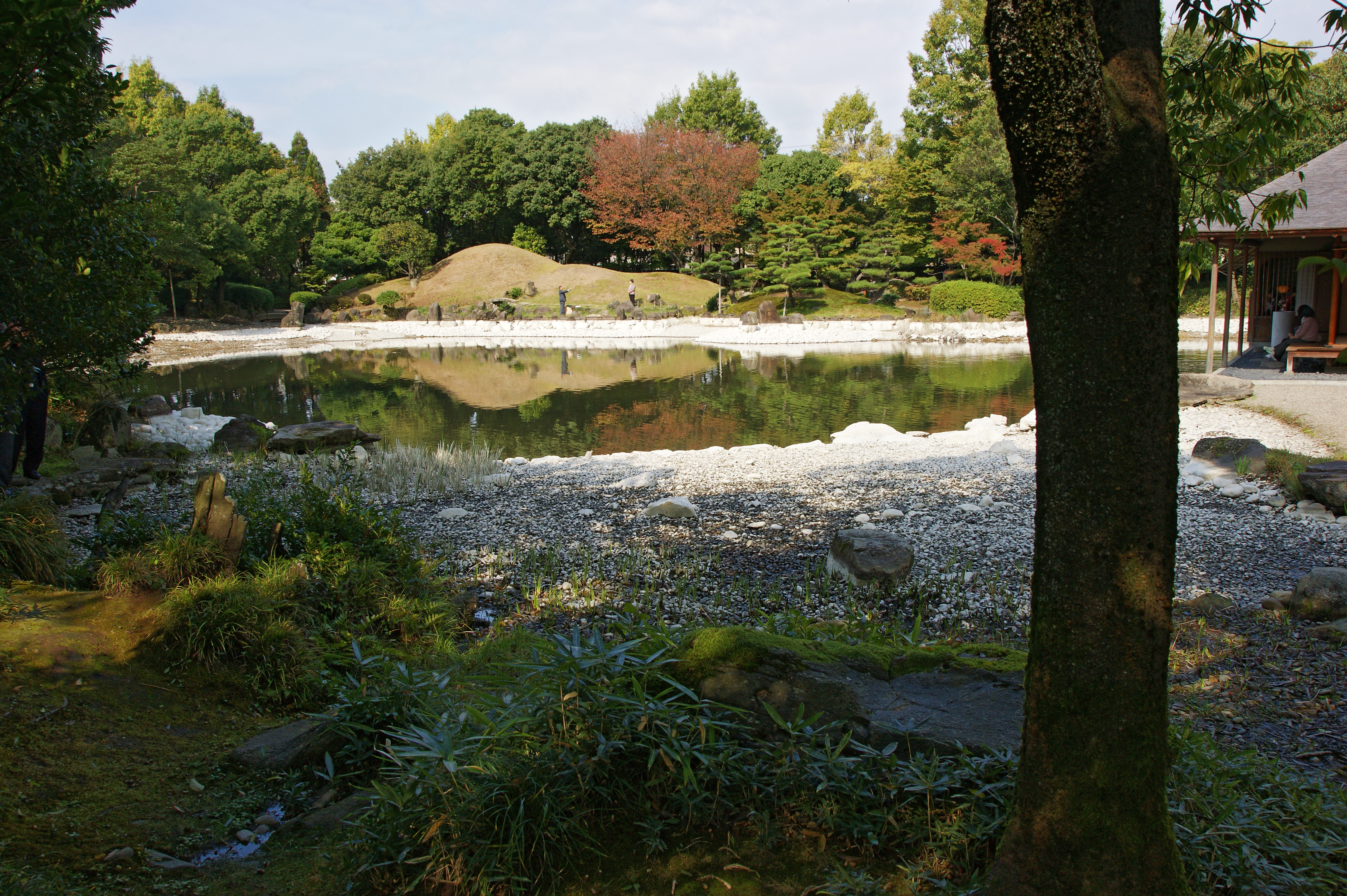 Youkoukan Garden, Fukui, Fukui prefecture, Japan